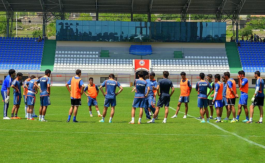 Main stand at the Yerevan football academy stadium